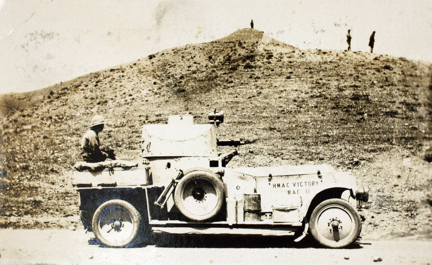 Rolls Royce armoured car.